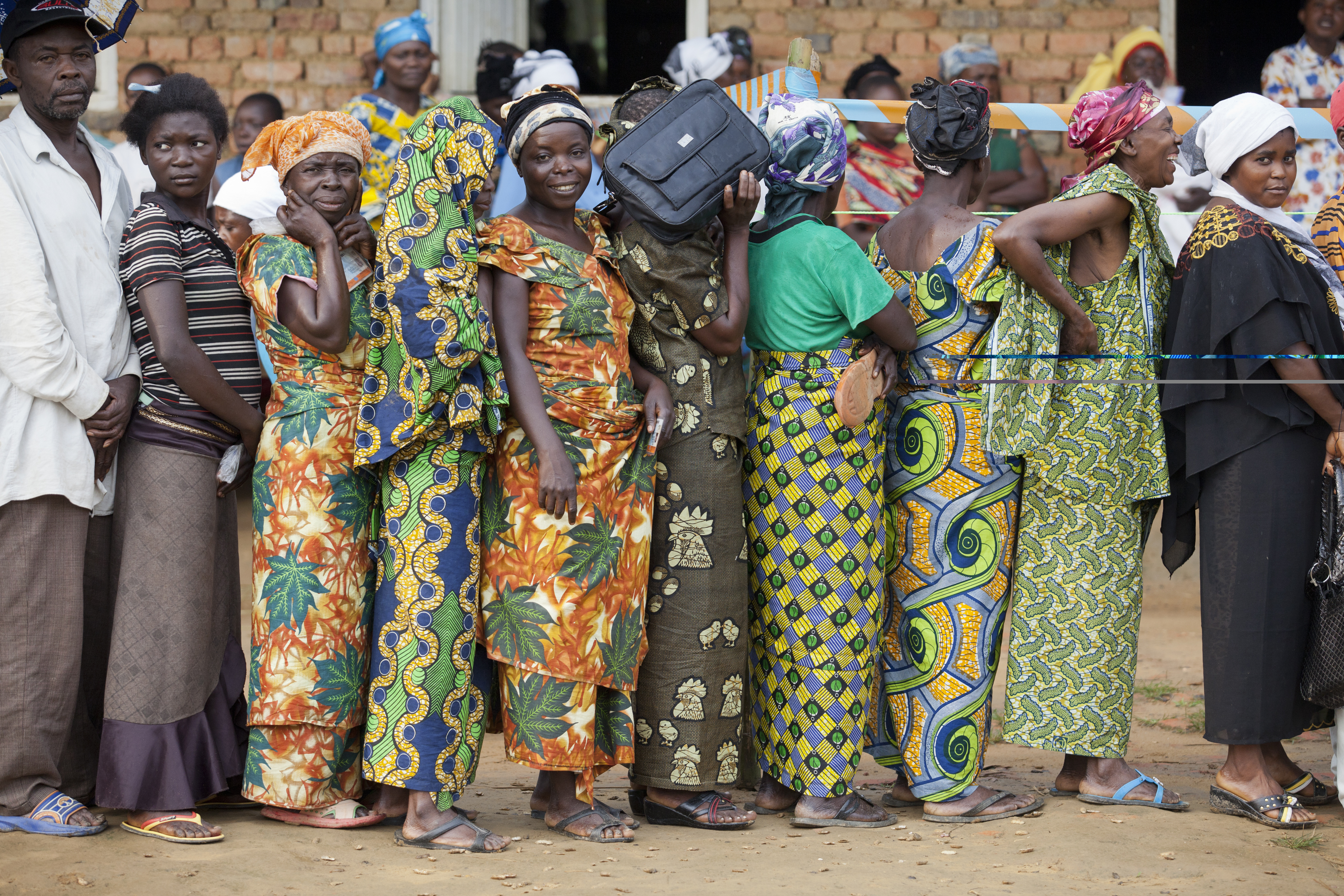 Presidential and legislative elections in DRC, Walikale 28 november 2011.